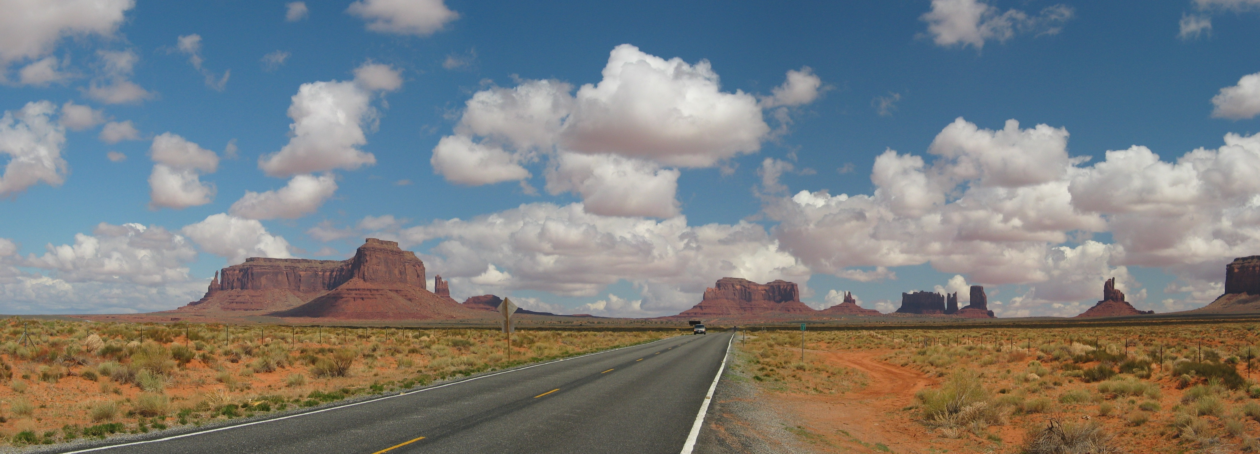 Highway 163, north-east of Monument Valley, UT, USA